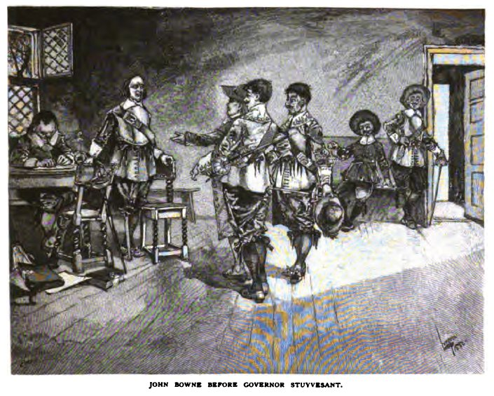 John Bowne appearing before Governor Stuyvesant